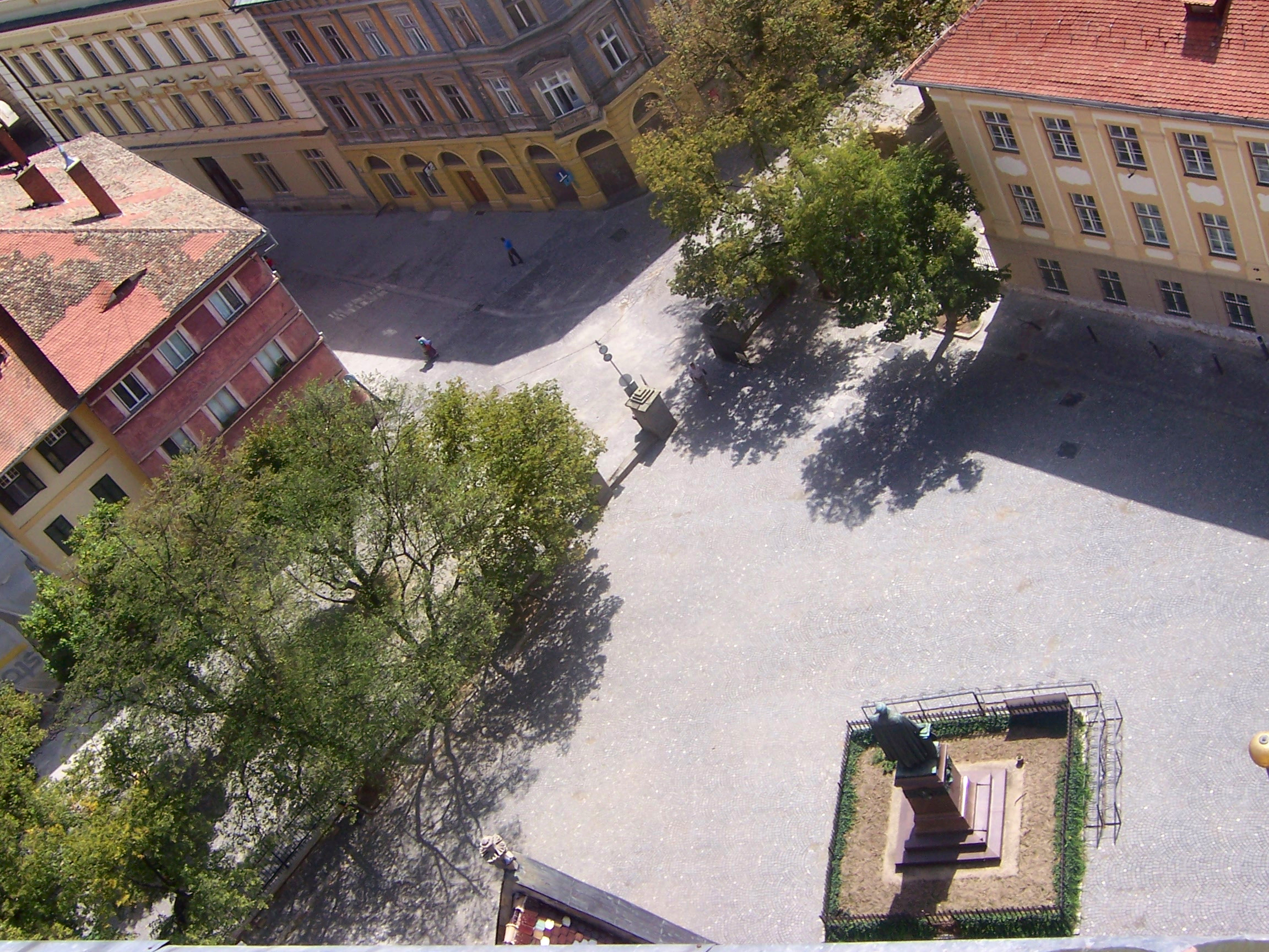 Sibiu, view from the tower